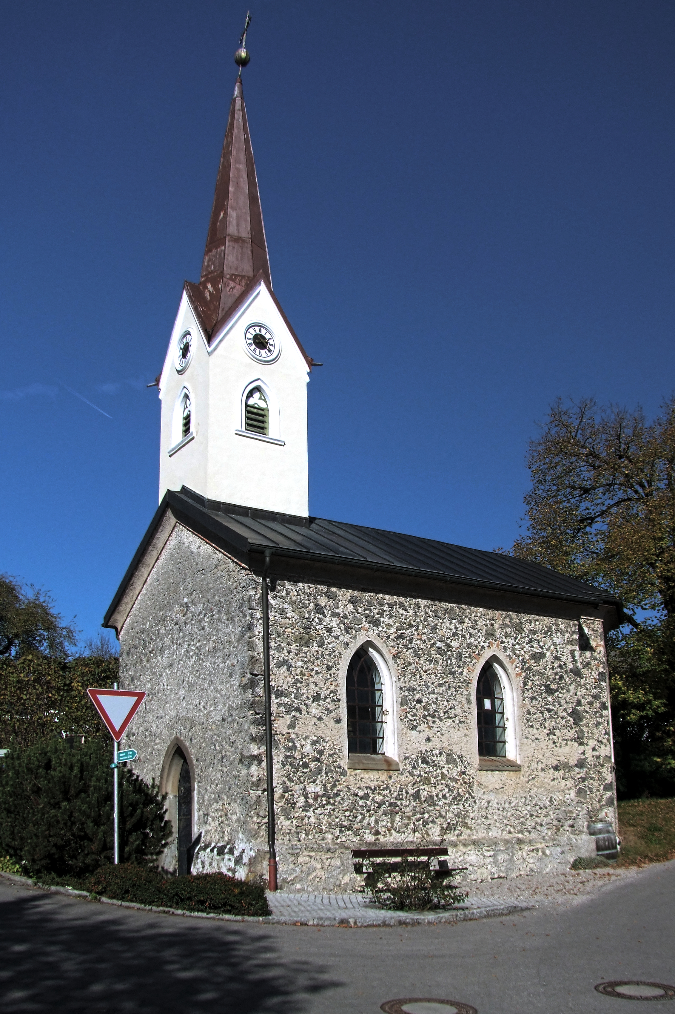 Chapel St. Catherine, built 1859, in Roitham, municipal Seeon-Seebruck, district Traunstein, Upper Bavaria, Germany. Built by usage of slag.